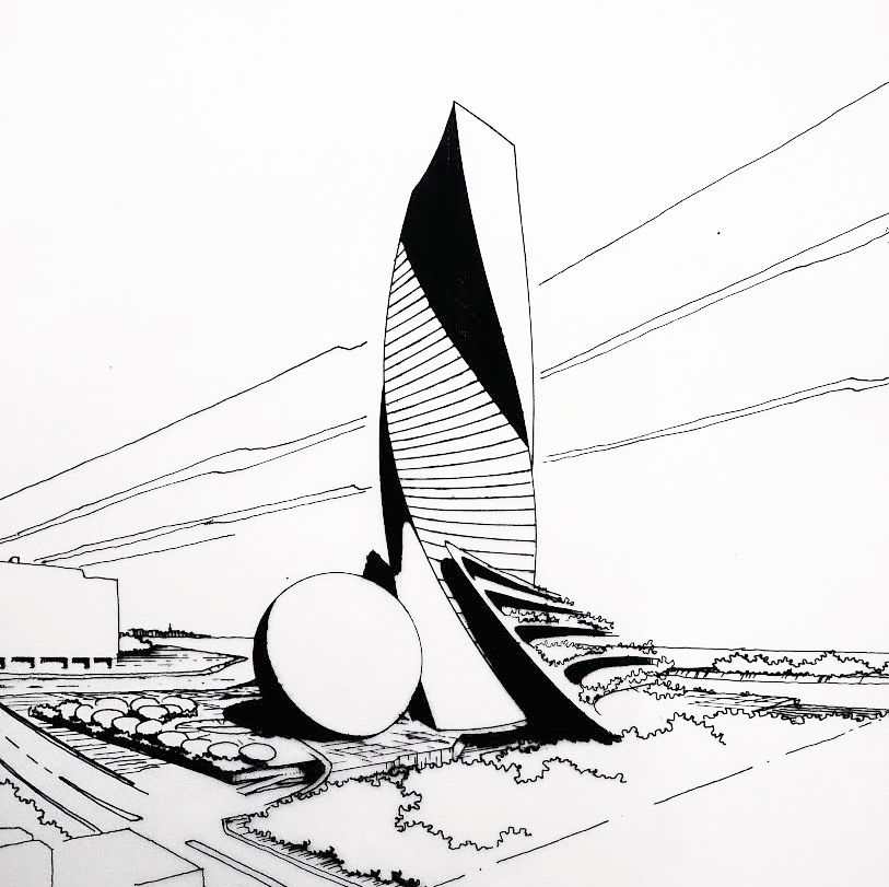 Brickell Hotel Complex by Henry Pavie (1974) Miami FL. USA.